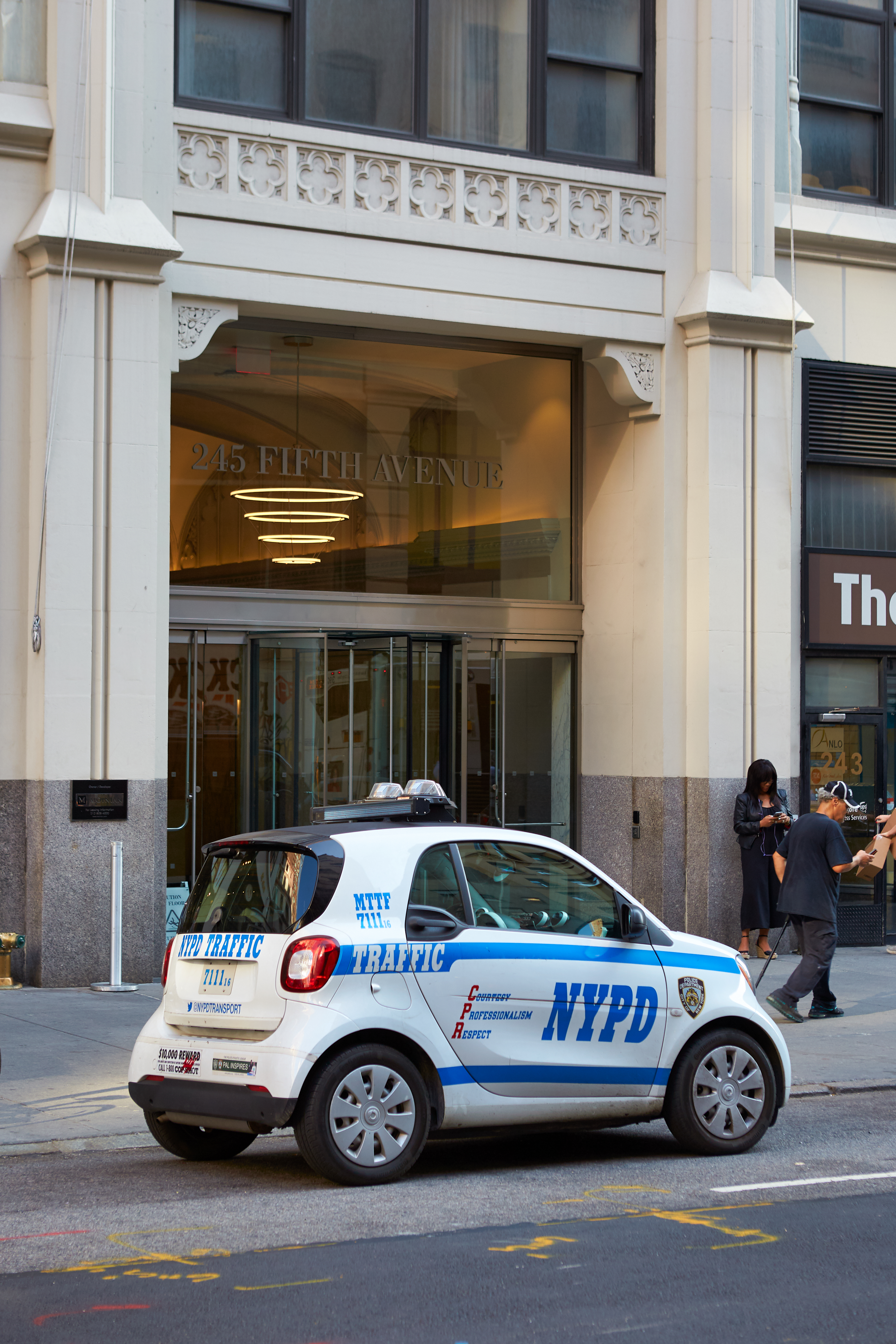 NYPD Smart car on Fifth Avenue